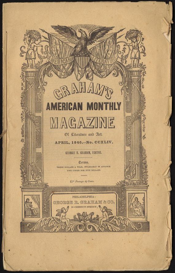 A scan of the cover of the April, 1846 issue of Graham's Magazine, published in Philadelphia by George R. Graham, containing the essay "The Philosophy of Composition" by Edgar Allan Poe.